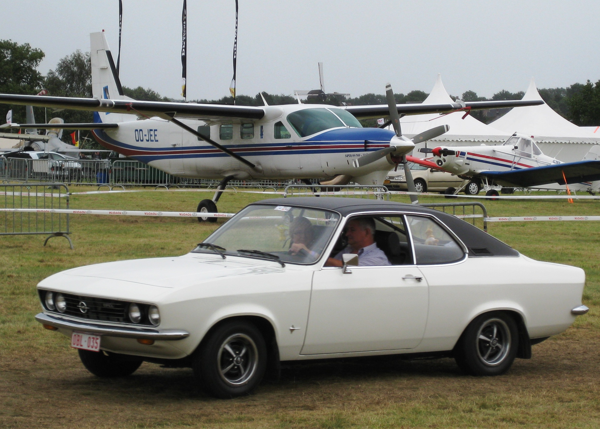 Opel Manta A arrives at Schaffen-Diest